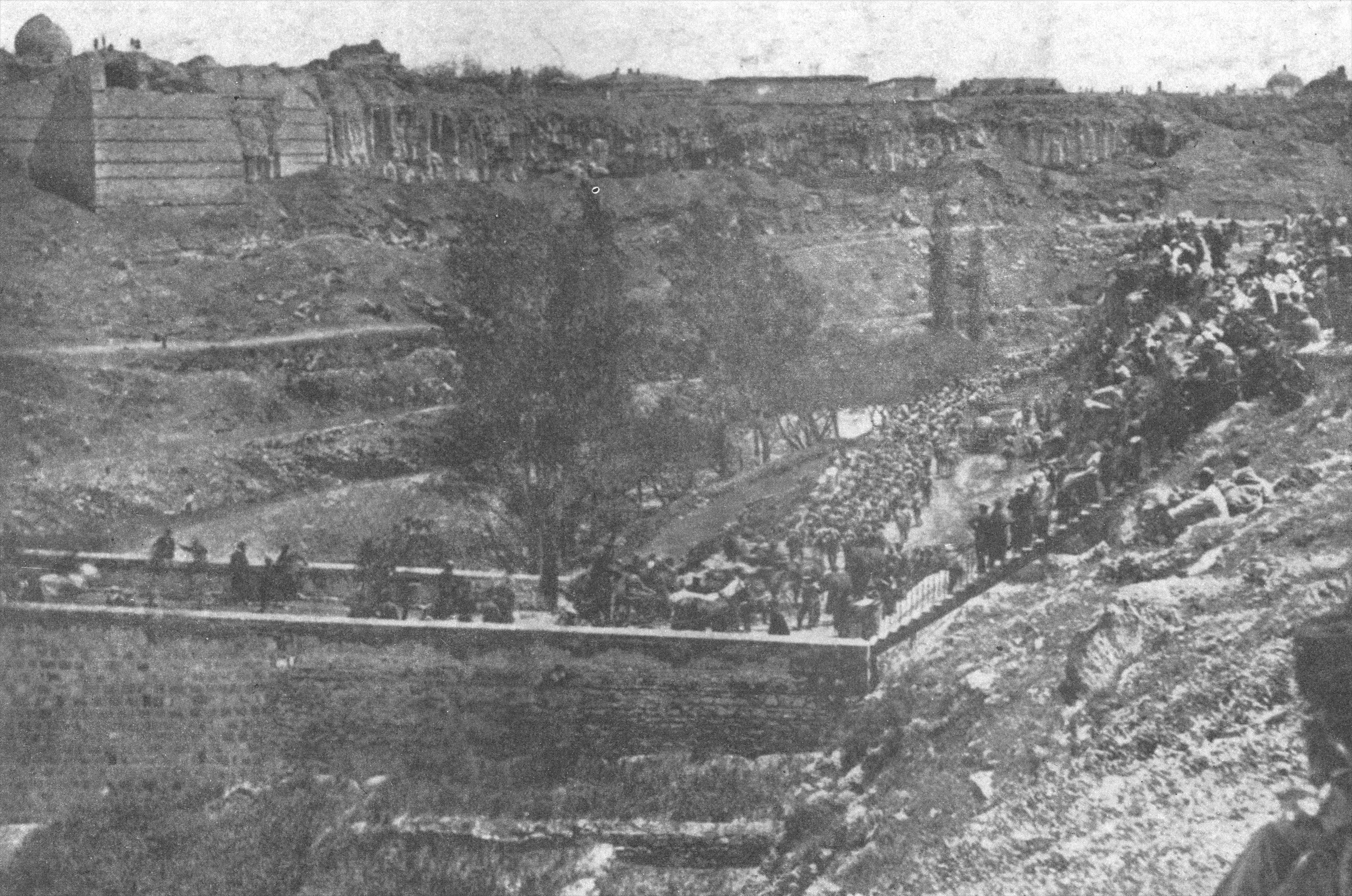 Armenia's Araratian regiment leaves for front during Turkey-Armenia war, 1920